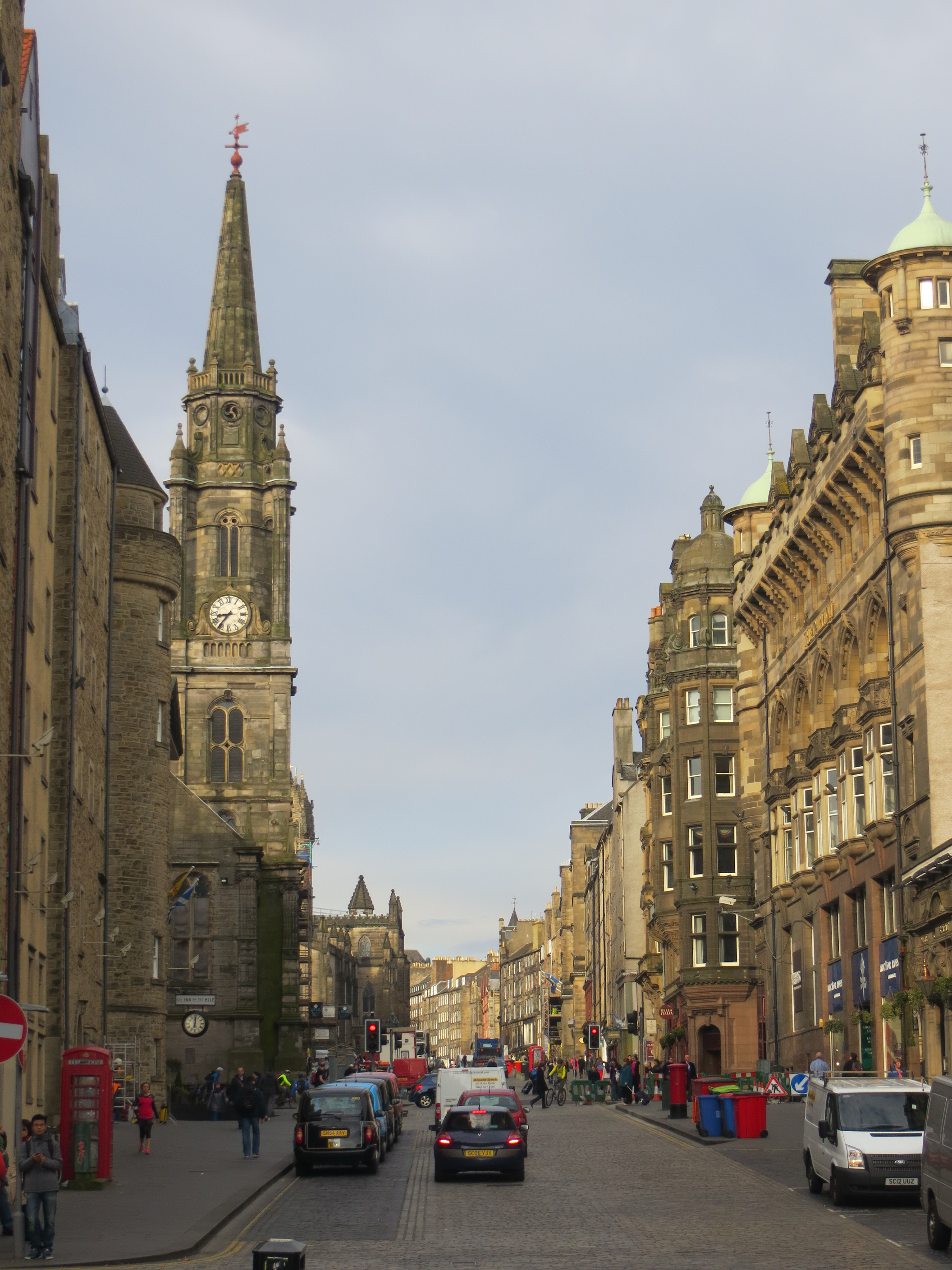 from a 35 LRT bus